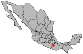 Location map of Huajuapan de León, México.